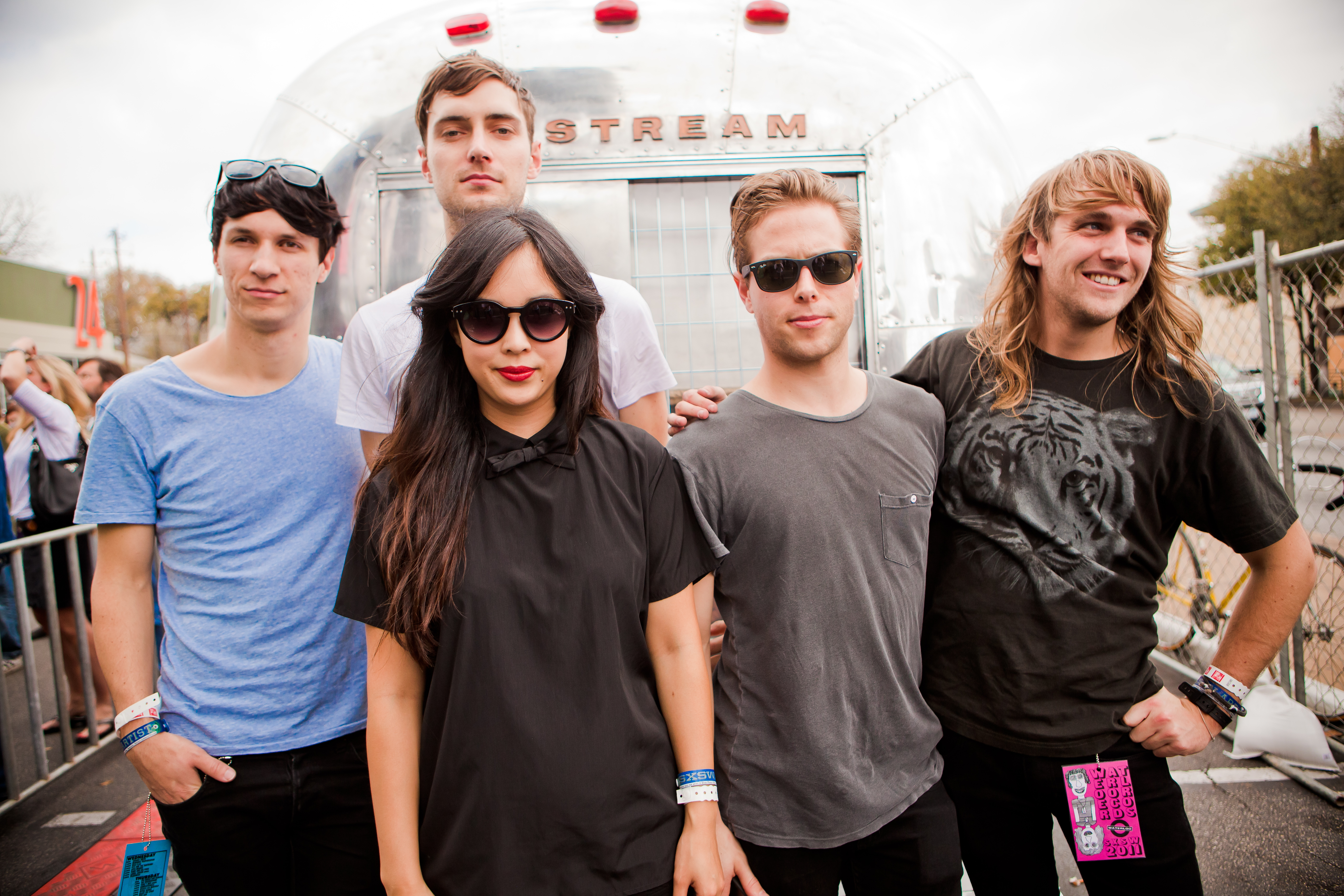 The Naked and Famous is a Electro Pop band from Auckland (New Zealand). Here at SxSW Music 2011 - Austin.